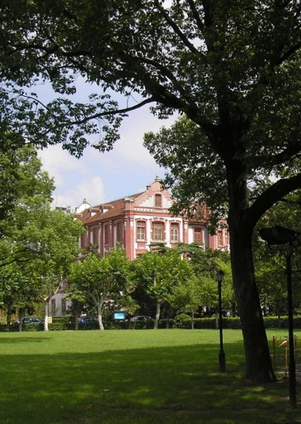 Author: iwasgone Source: originally published at pic @ .cn Date: 2006-10-12